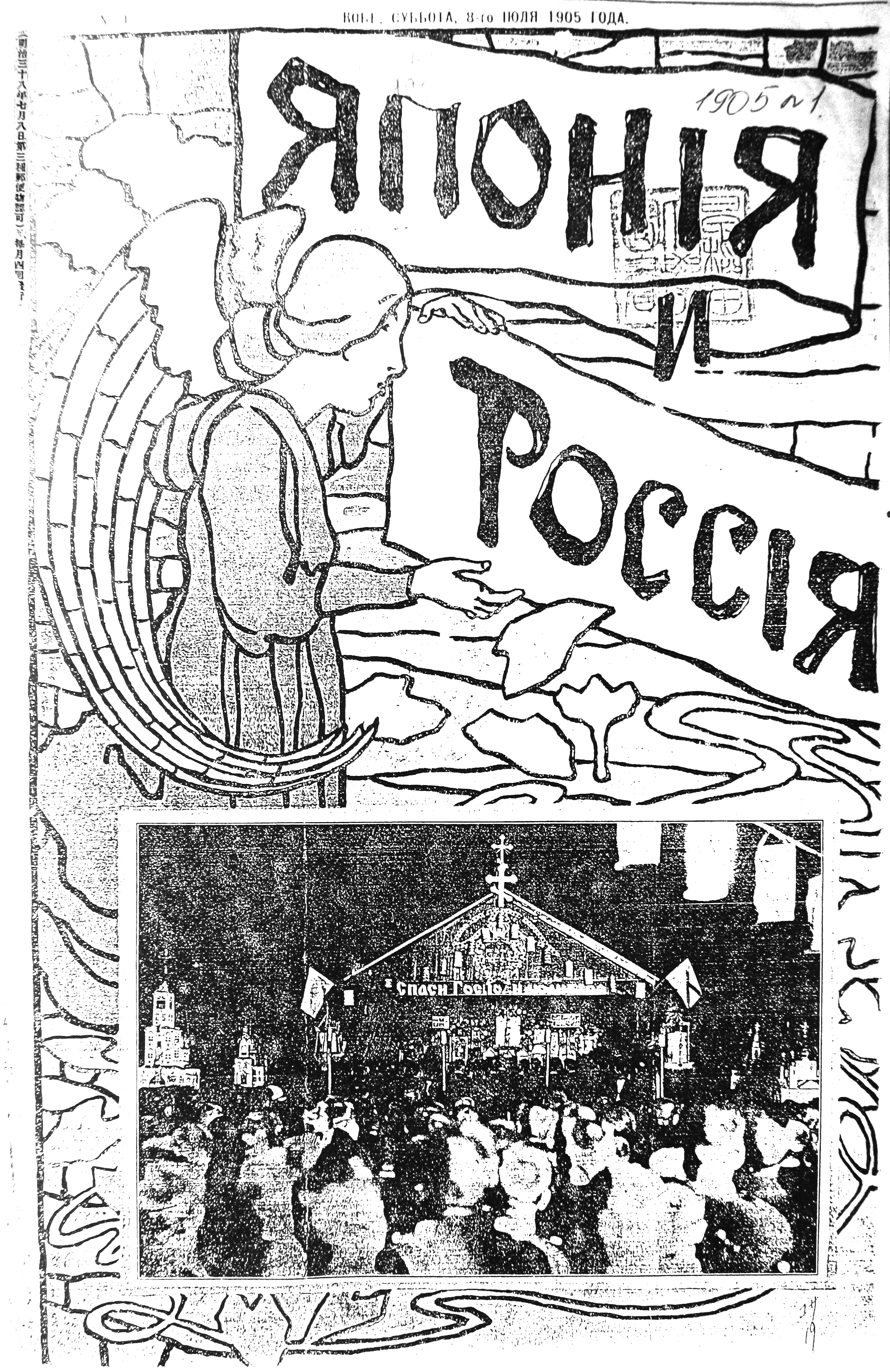 Japan and Russia (1905-1906) newspaper